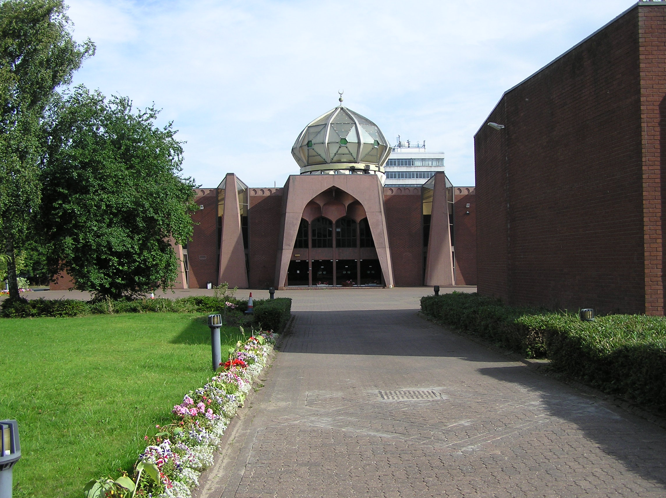 Glasgow Central Mosque in Glasgow, Scotland. Photo taken by Finlay McWalter on September 4th 2005.